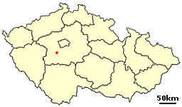 Location of Czech town Dobříš.